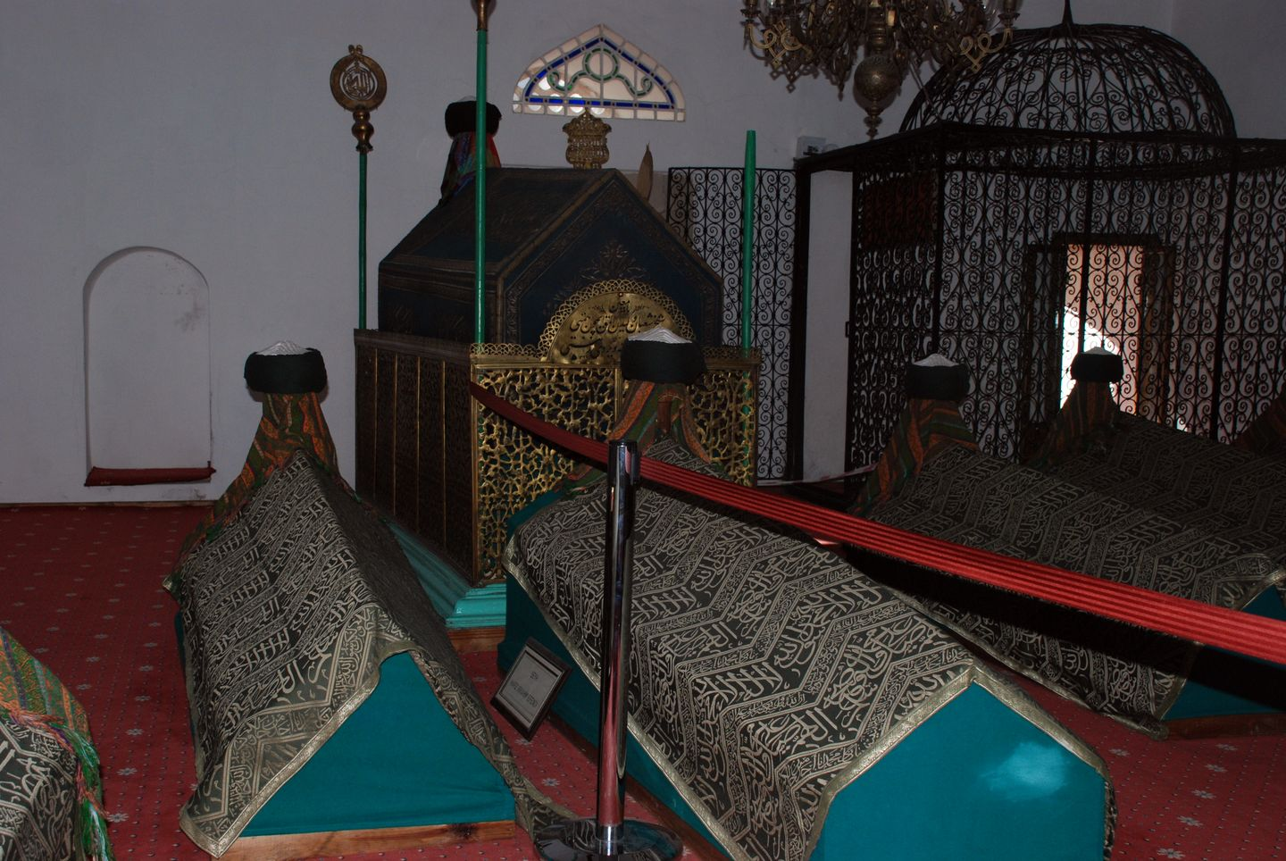 Kastamonu, Turkey, Pir Şeyh Şaban-i Veli Türbesi